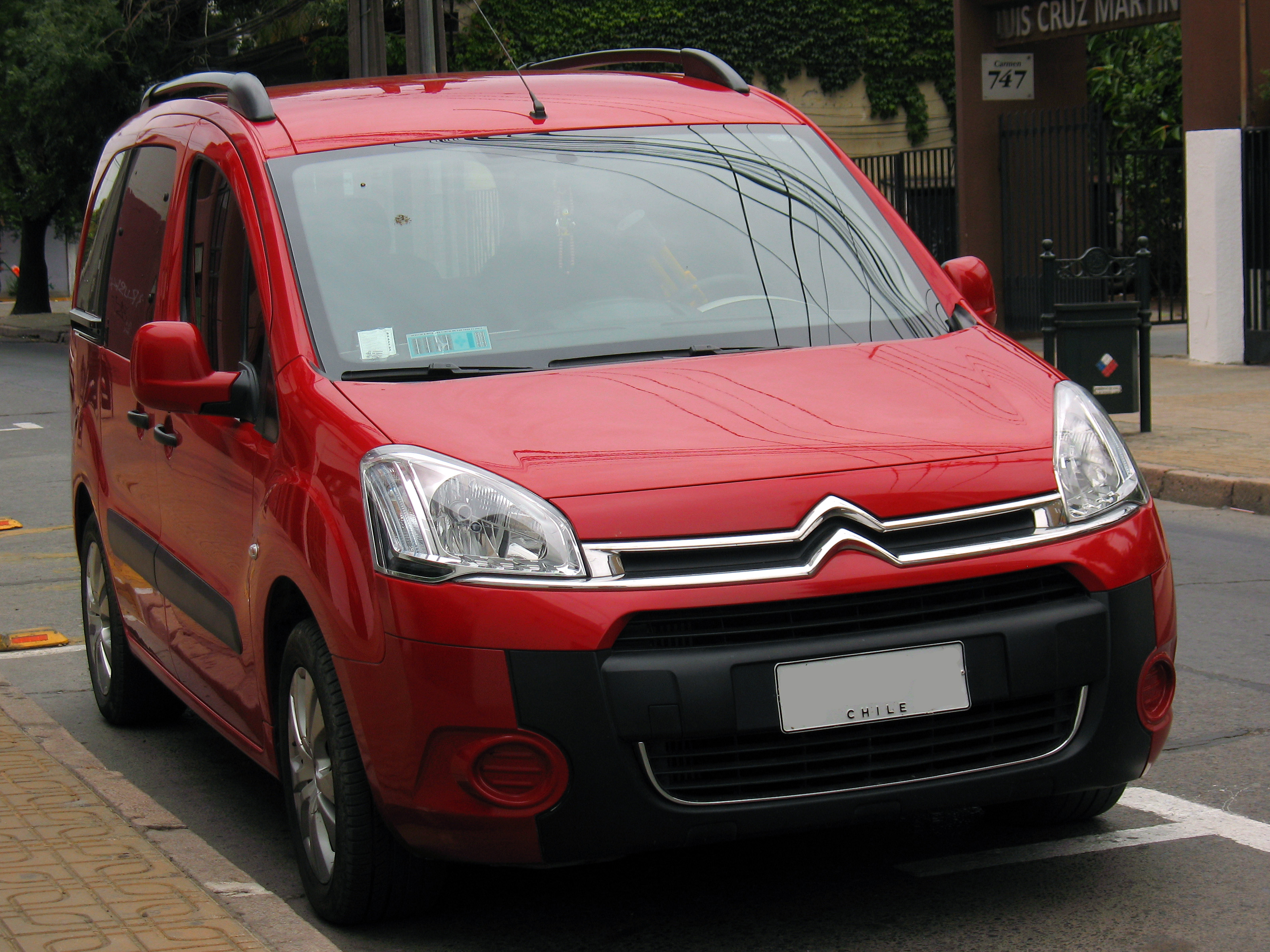 Citroen Berlingo HDi Multispace 2013